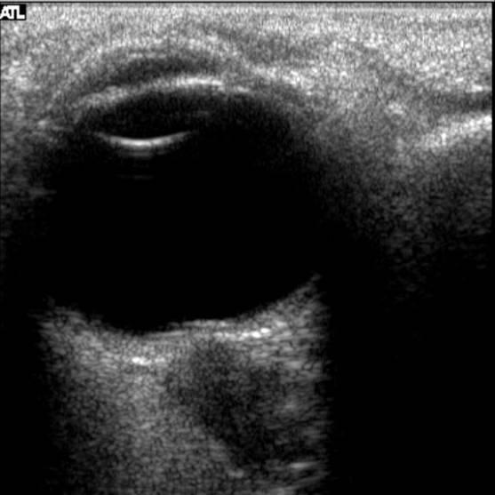 On-orbit ultrasound of posterior orbit of the fourth case of visual changes from long-duration spaceflight. In-flight ultrasound image of the right eye showing posterior globe flattening and a raised optic disc consistent with optic-disc edema and raised intracranial pressure. Other information Page 11